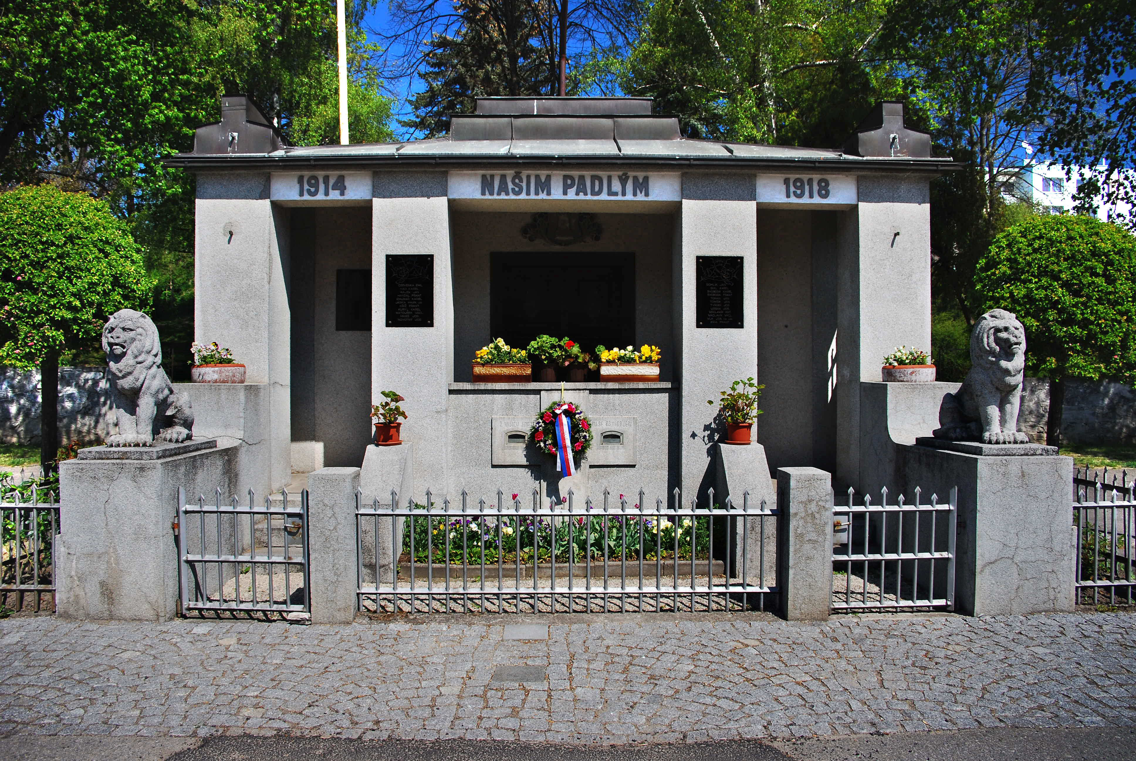 World War I memorial in village of Čkyně, Prachatice District, Czech Republic